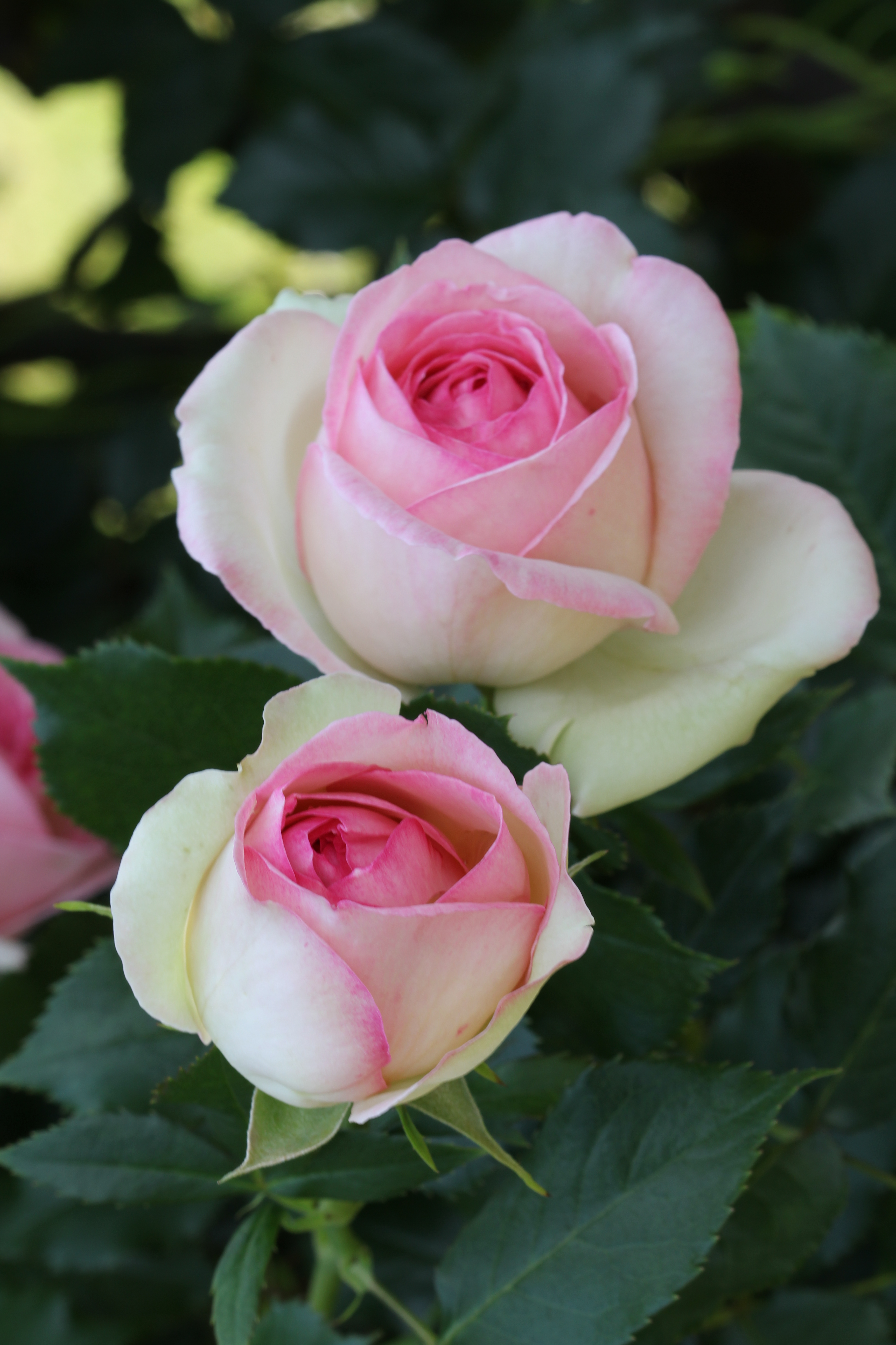 Rosa 'Pierre de Ronsard' or Rosa Eden